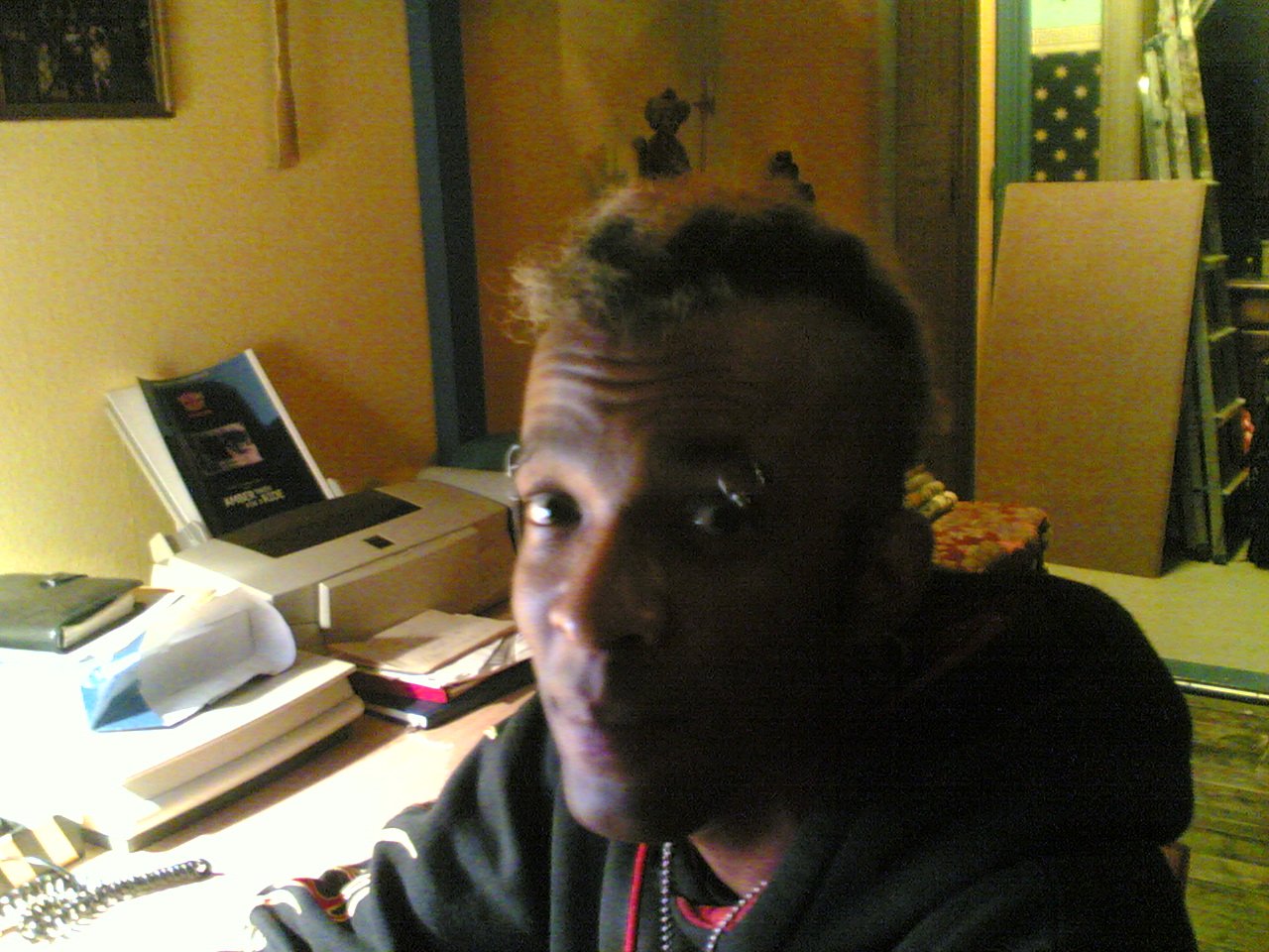 Finnegan the Poet in Rotterdam, The Netherlands in September 2007.